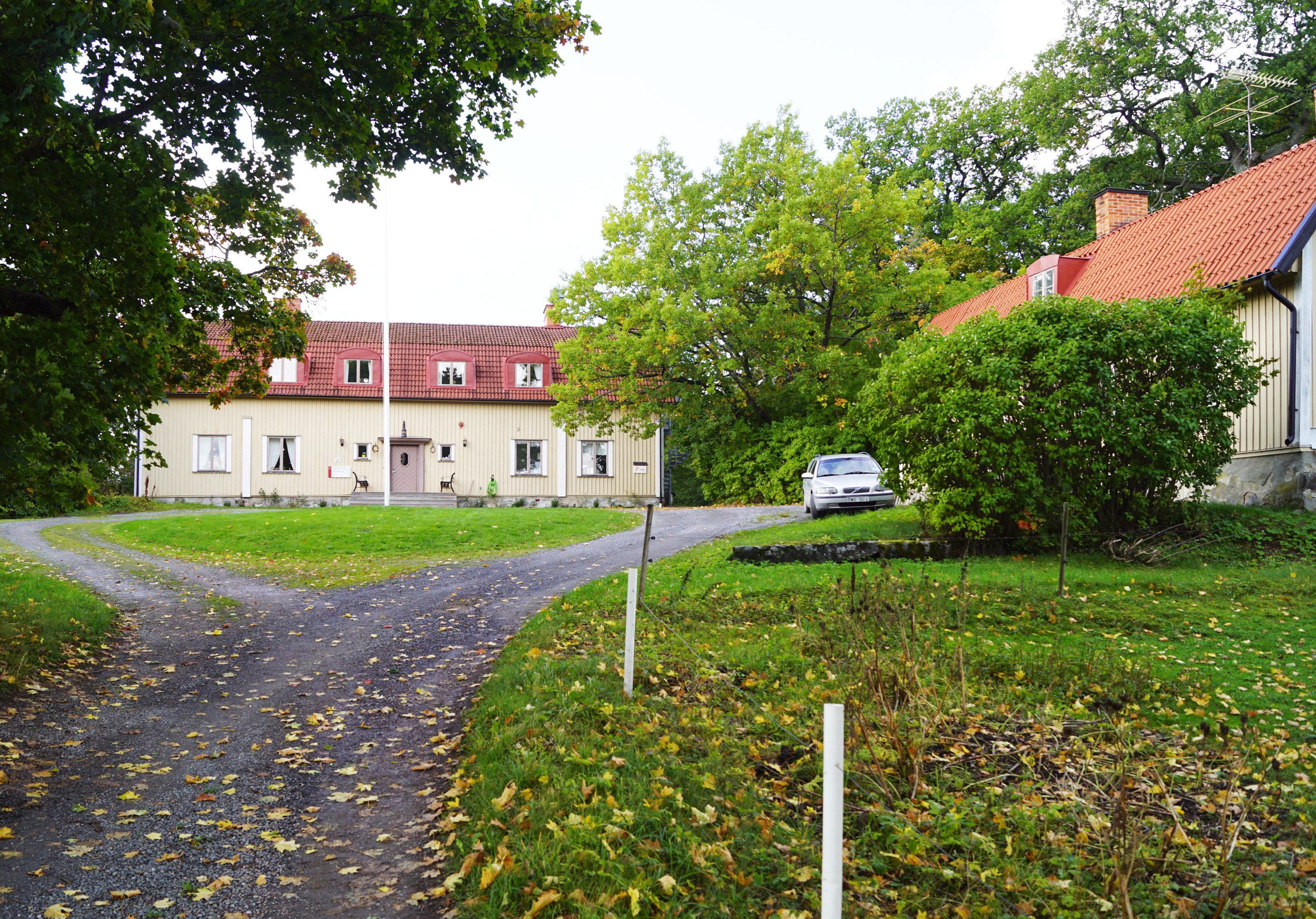 Norra Malma mansion in Estuna Parish, Norrtälje Municipality, Uppland Sweden.